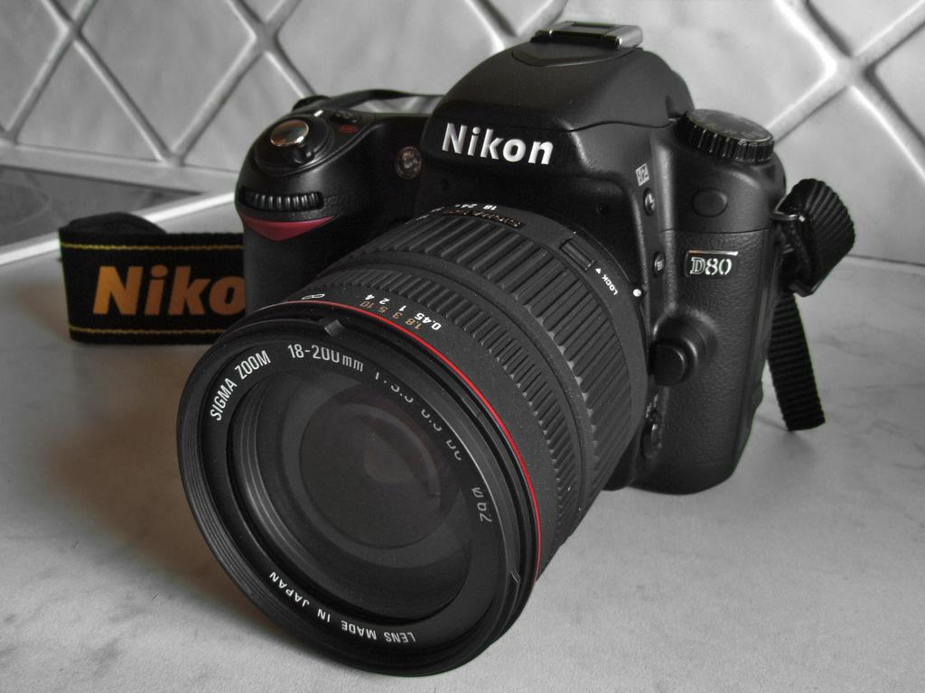 This is my D80 and the Sigma 18-200 that I got for birthday